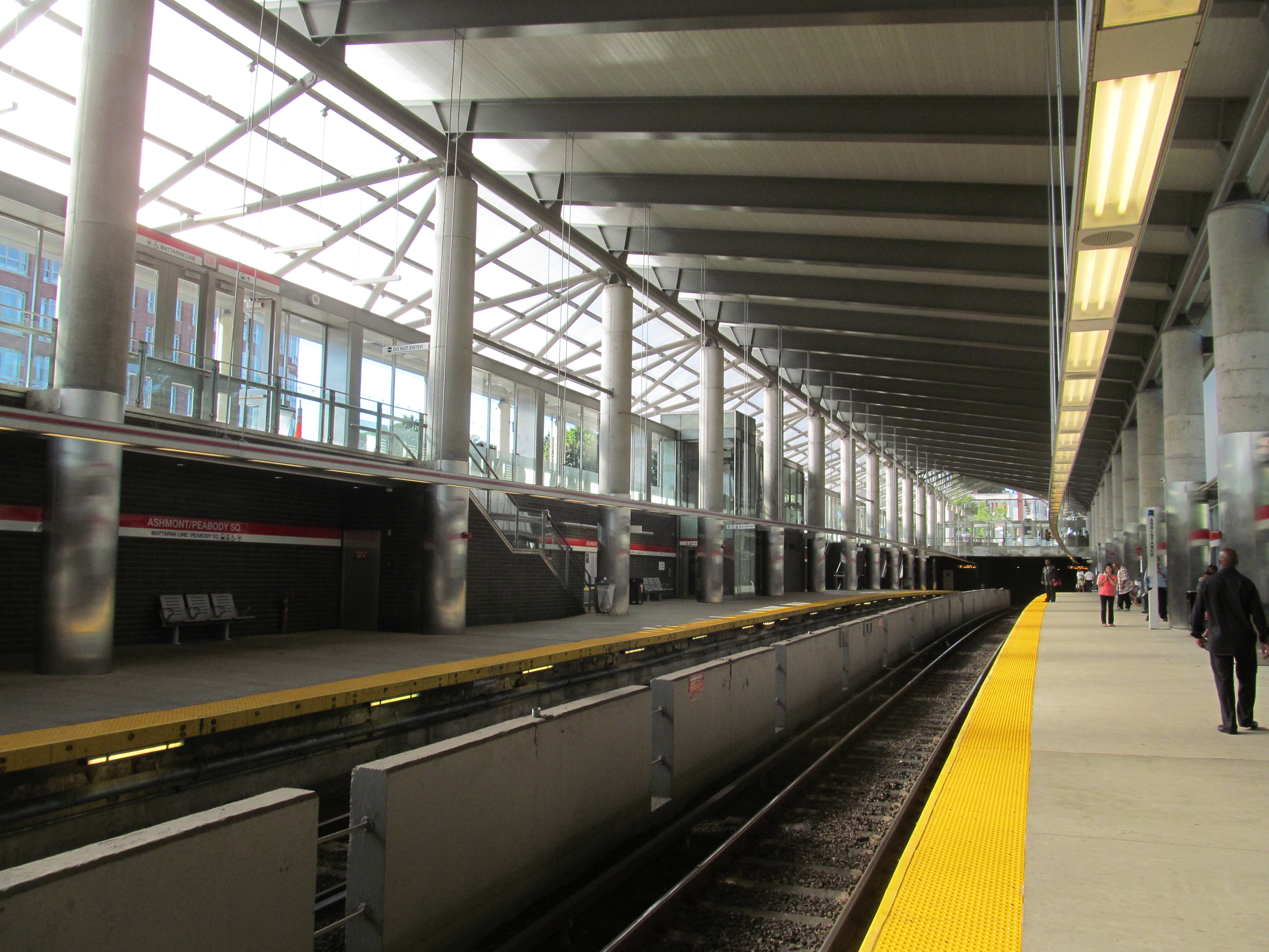 Red Line platforms at Ashmont, facing inbound